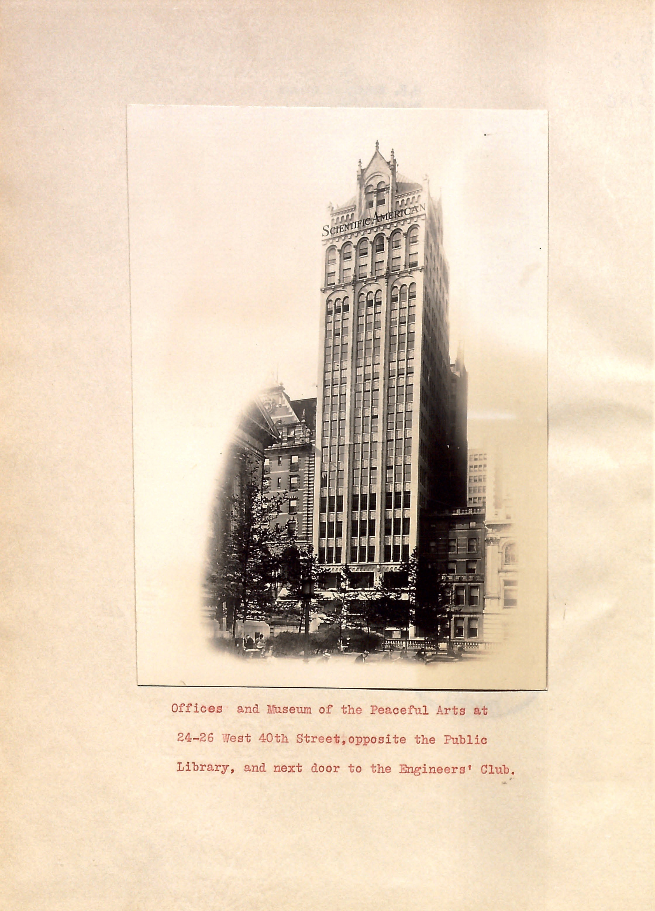 Offices and Museum of the Peaceful Arts at 24-26 West 40th Street, opposite the Public Library, and next door to the Engineers Club